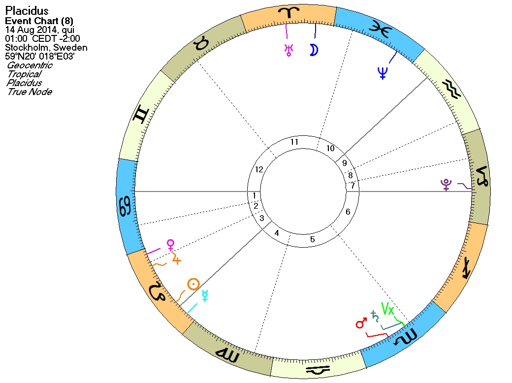 Placidus house system